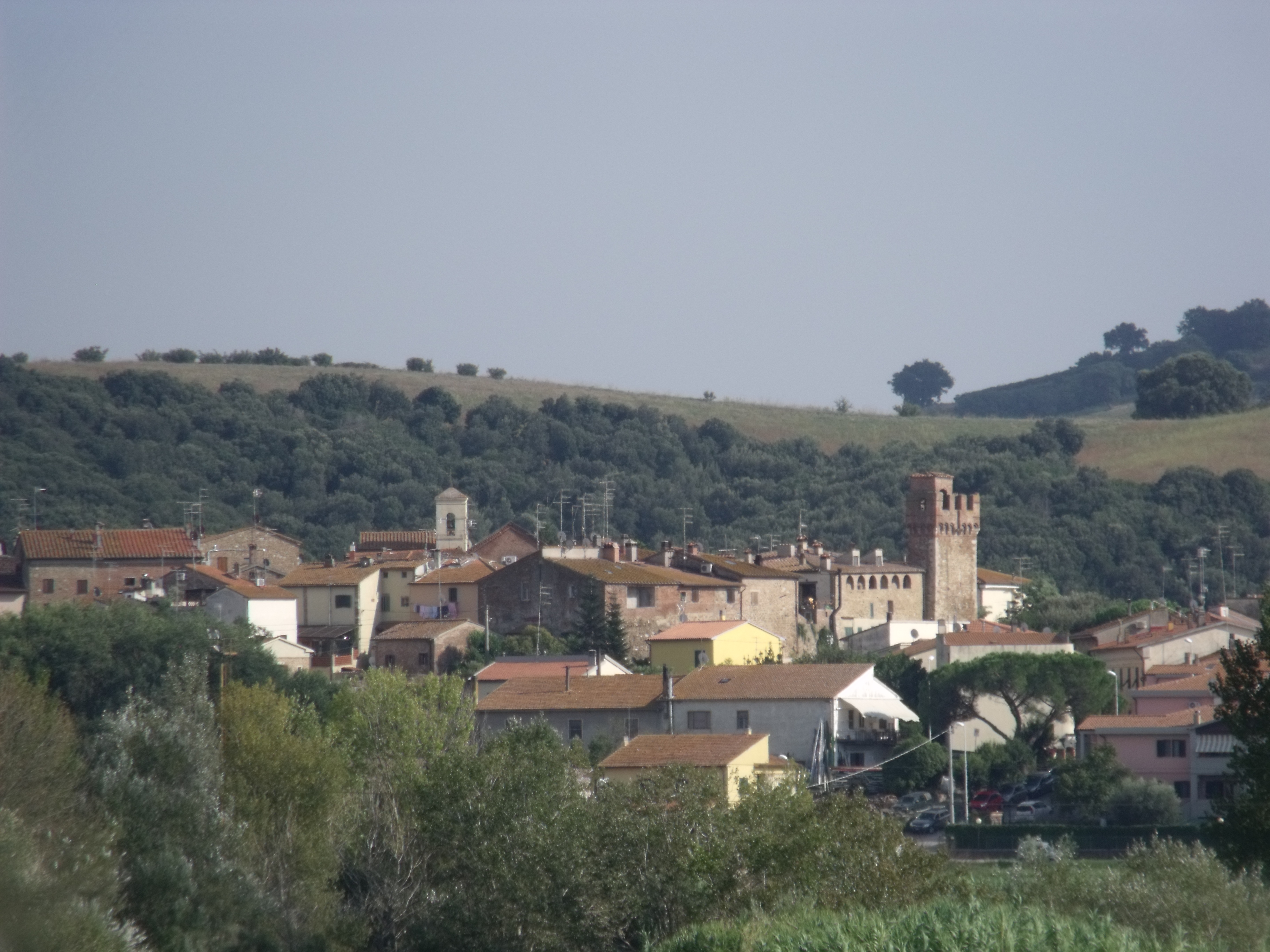 Panorama of Istia d’Ombrone, hamlet of Grosseto, Province of Grosseto, Tuscany, Italy